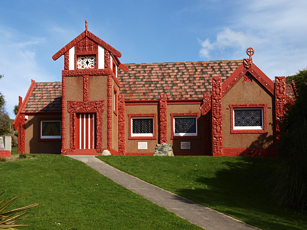 Church from Otakou, Dunedin, New Zealand, build in 1941 to replace an earlier church built in 1865. New Zealand Historic Places Trust Register number: 5177.